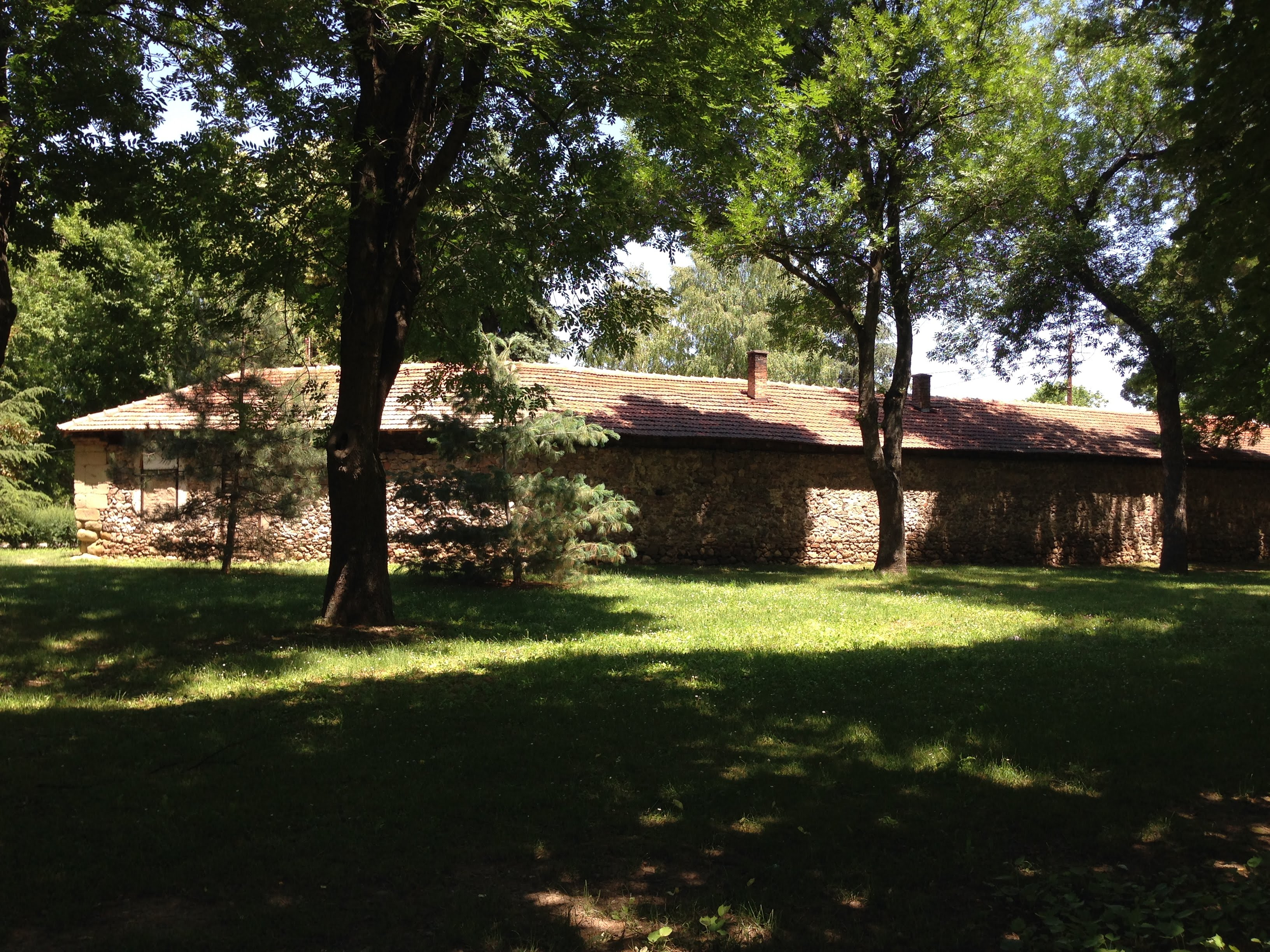 City garden Niš, Serbia